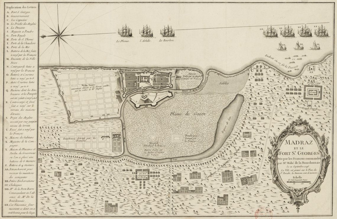 Plan of the siege of Madras by La Bourdonnais in 1746, with details of the fortifications and the French ships that participated in the landing.